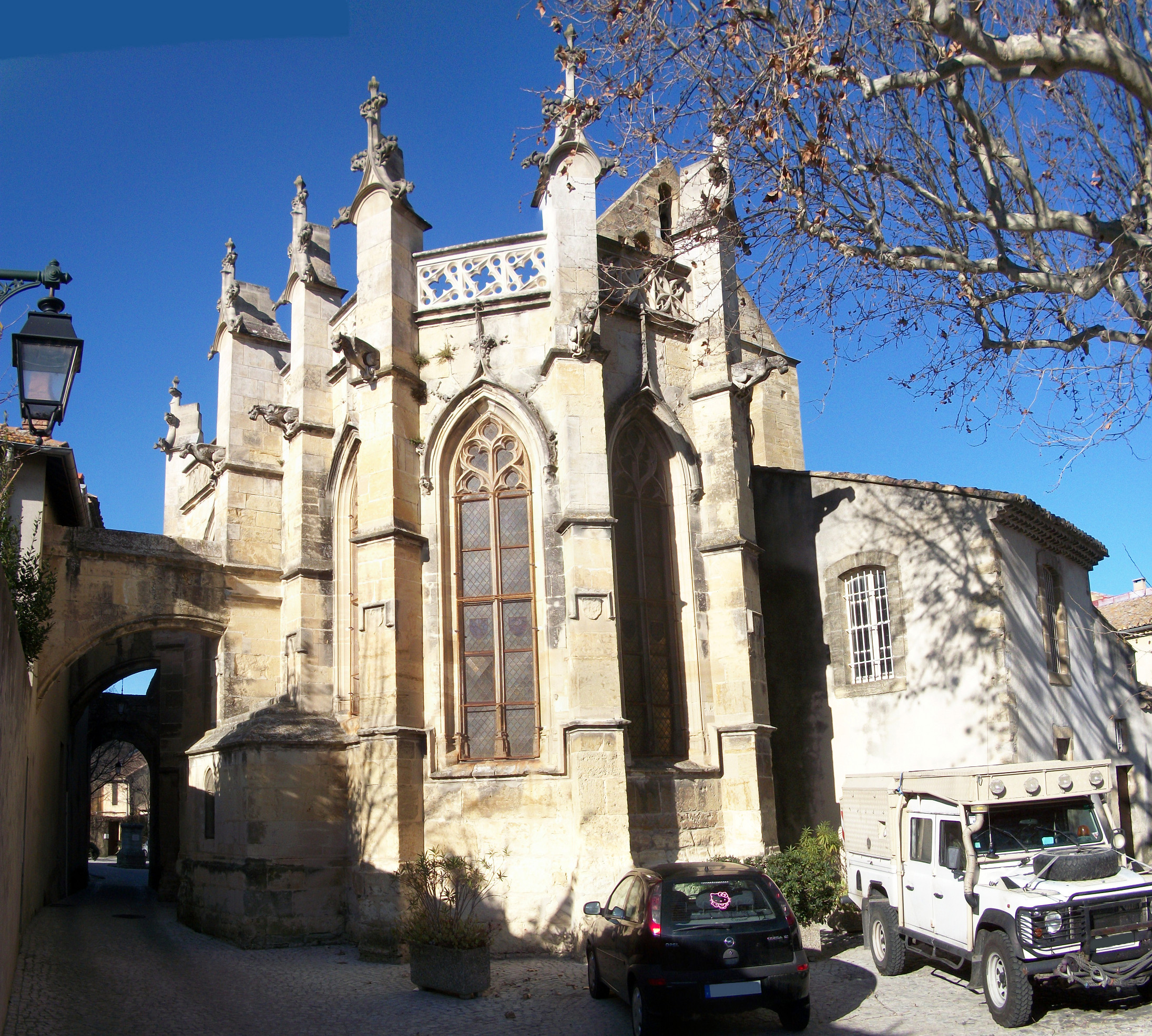 Village of Caderousse (Vaucluse, France). Rear view of Saint-Michel church. Panoramic picture from 3 pictures taken on 2011-12-23 with the Hugin software.